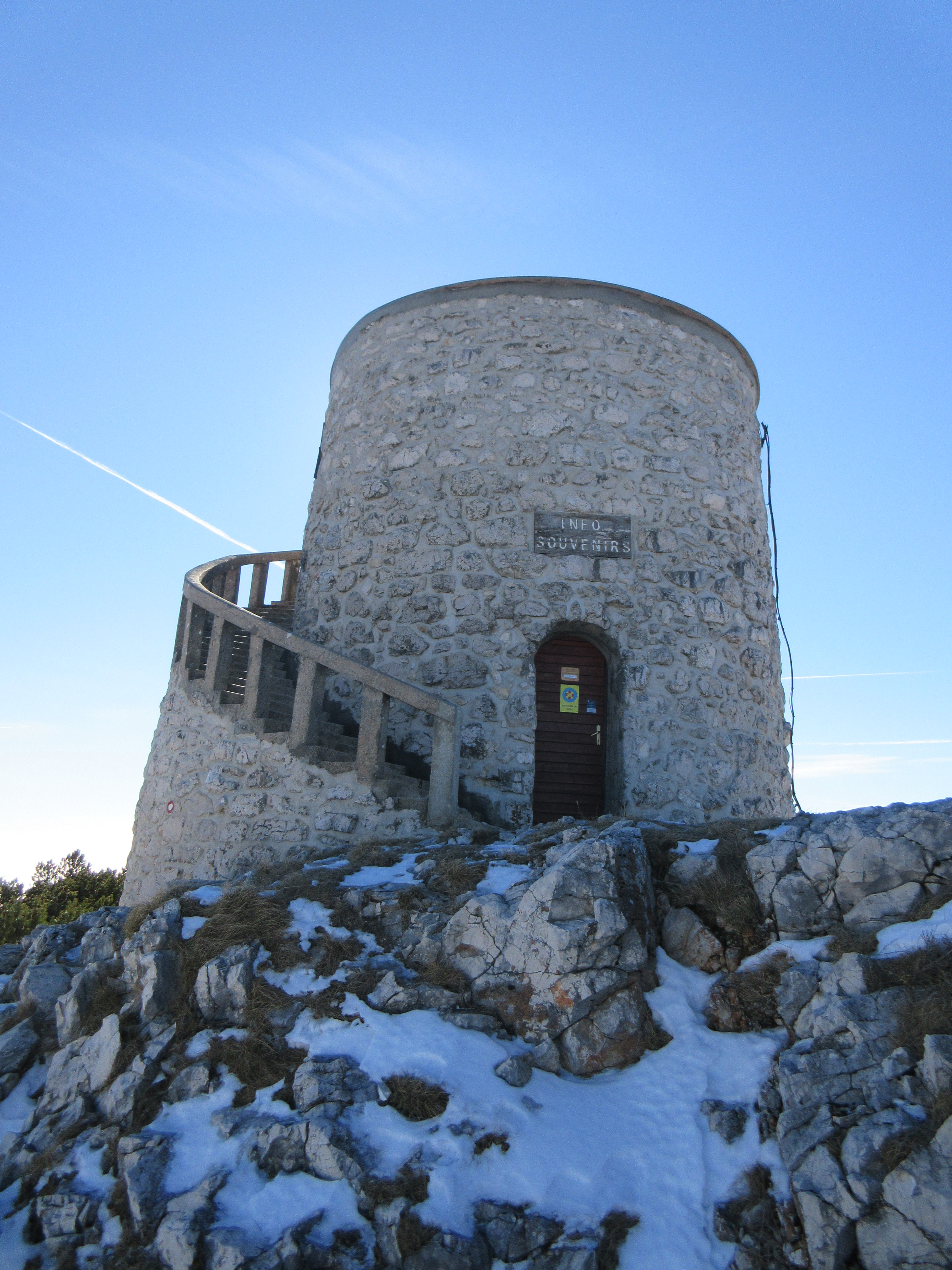 tower